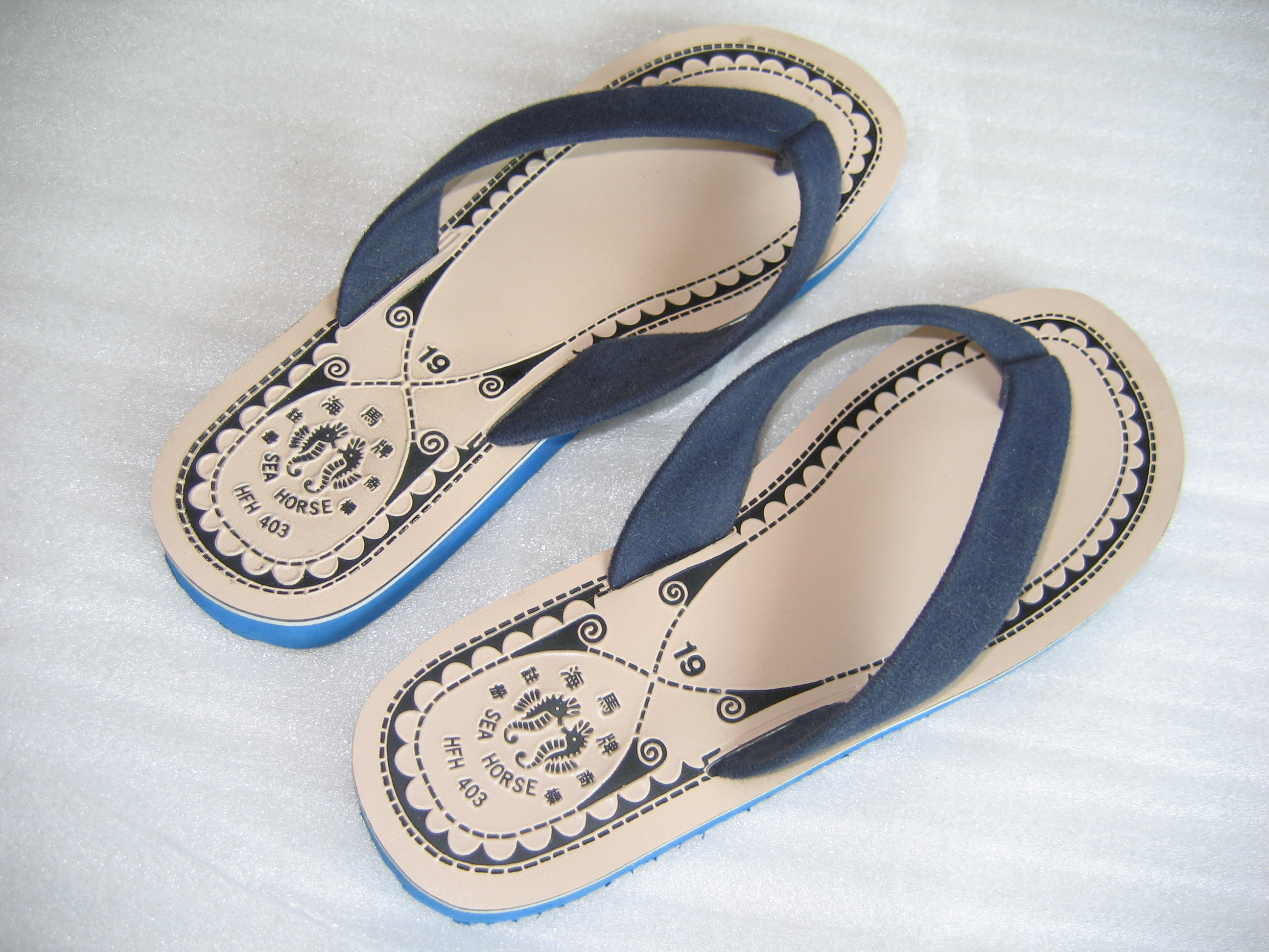 a typical flip flop (人字拖) found in Hong Kong.